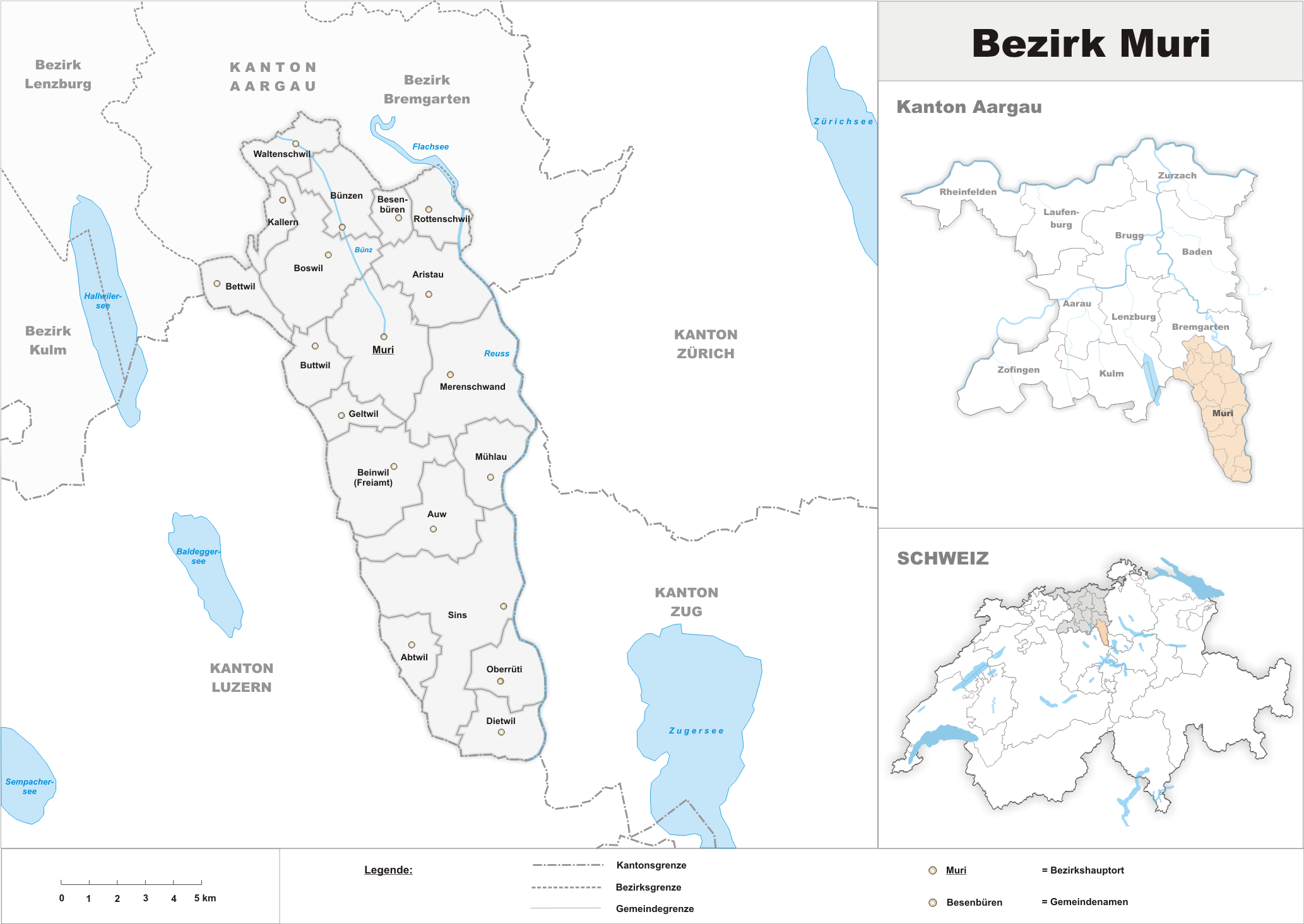 Municipality in the District of Muri